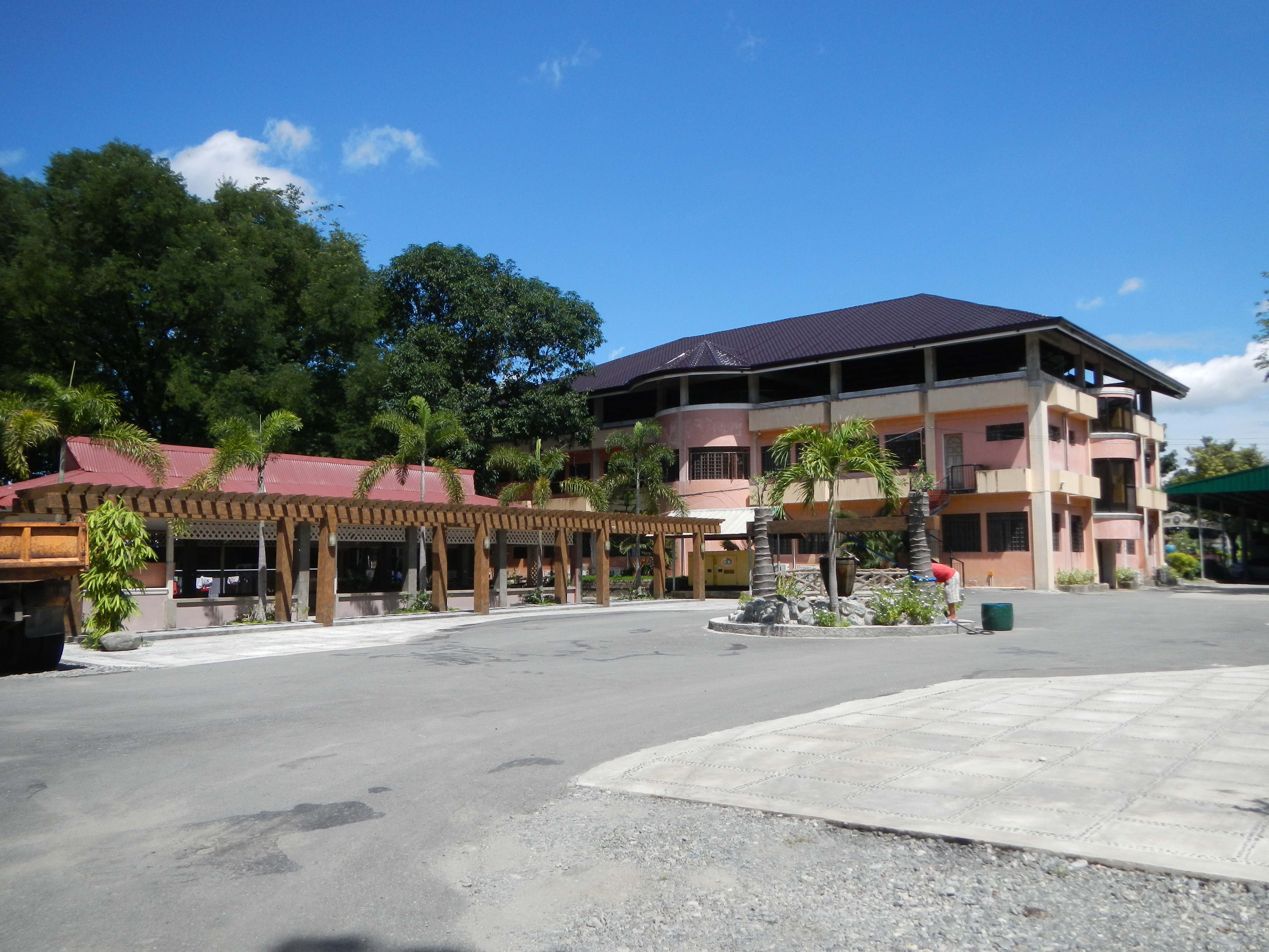 UploadWizard photos of Municipal Town Hall of Balungao, Pangasinan [1] Coordinates: 15°53'52"N 120°40'18"E [2] & Balungao Town Plaza & ParkCoordinates: 15°53'56"N 120°40'19"E [3] [4] Balungao Hilltop Adventure which has the longest ZipLine in Region I it has a length of 600 meters. [5] [6] Town Proper - is a municipality in the province of Pangasinan[7] in the Philippines subdivided into 20 barangays) [8] [9] Land Area: 73.25 km² ZIP Code: 2442 Coordinates: 15°53'10"N 120°42'7"E Mt. Balungao Hot & Cold Springs Resort [10] [11] [12] Mount Balungao [13] ([14] (15°51′44.90″N 120°40′57.70″E) is an extinct volcano[15], 382 metres (1,253 ft) ASL located in Balungao. Its volcanic past is manifested by its physical profile and the presence of hot and cold springs. The Philippine Institute of Volcanology and Seismology (PHIVOLCS)[16] lists Mount Balungao as an inactive volcano.[17] Coordinates: 15°51'47"N 120°40'54"E [18] [19] it is 383 meters high and has both hot and cold springs; one of only two found in Pangasinan (Mt Manleluag Spring National Park in Mangatarem). [20]